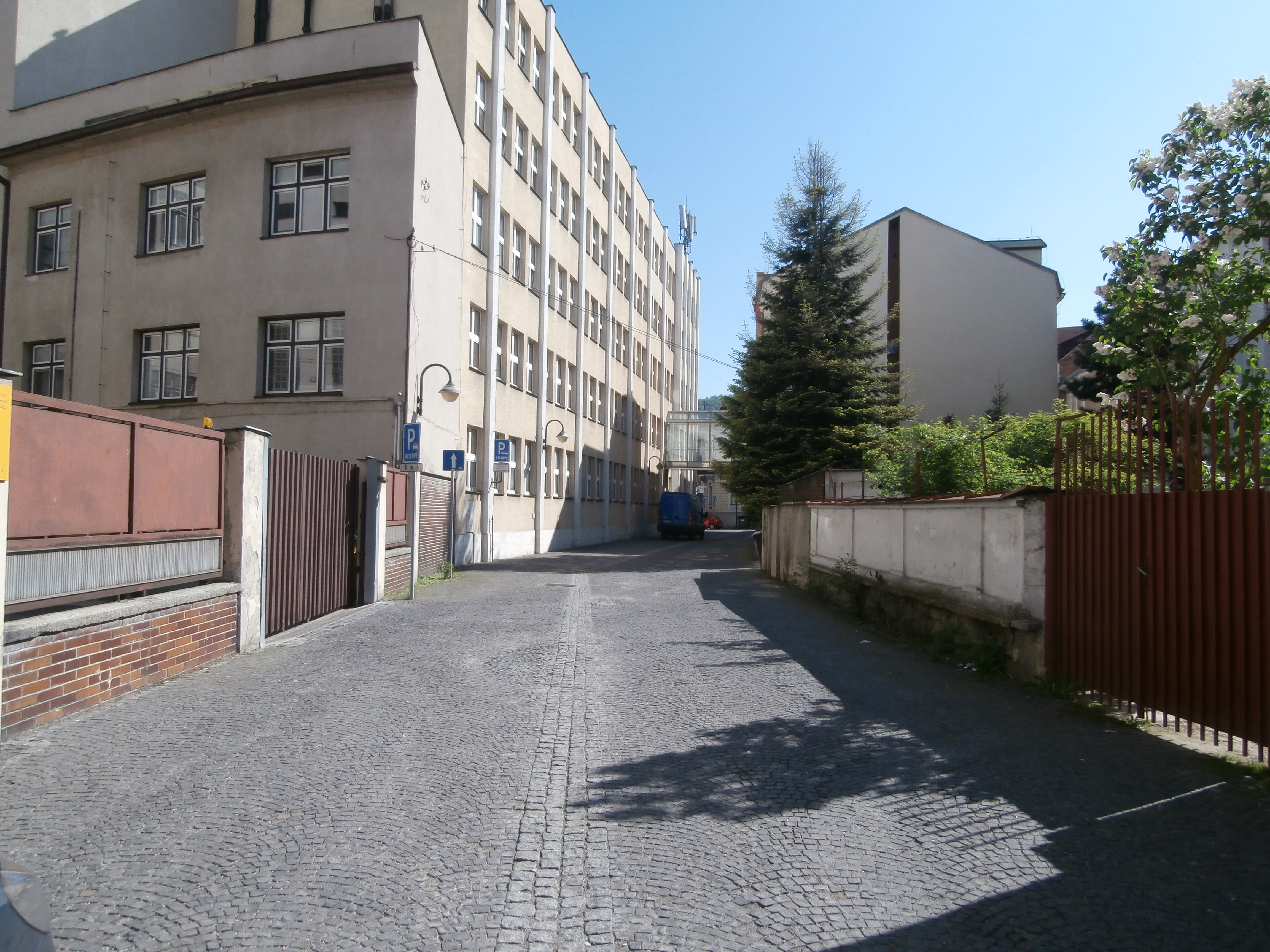 This is a street in Žilina.